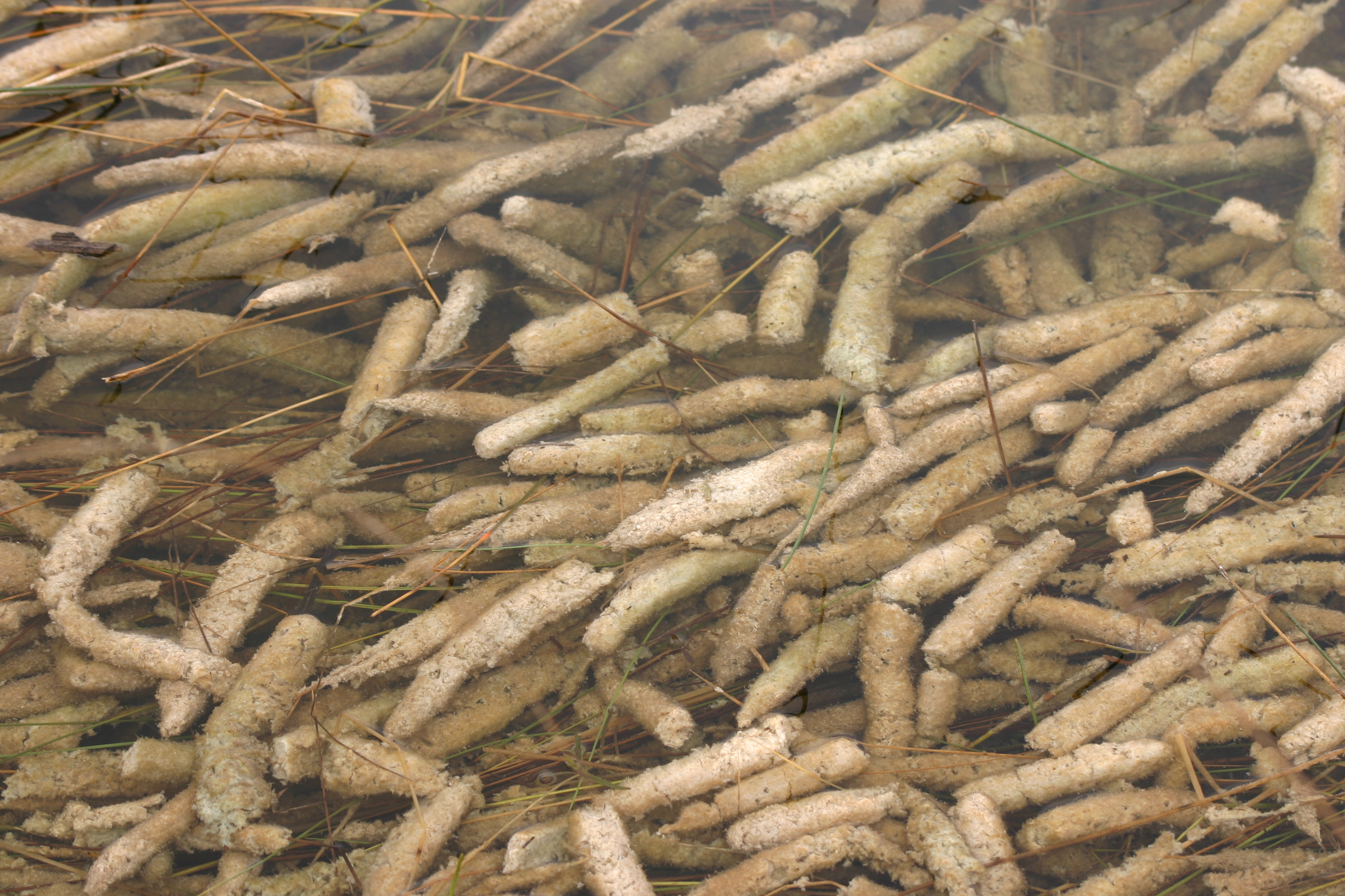 Periphyton in the Everglades, Florida, USA.